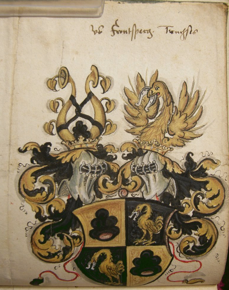 Page (or page detail) from a 16th century German armorial („Allerlay Wapen“) „Von Frontsberg Truchses“ (= von Frundsberg)